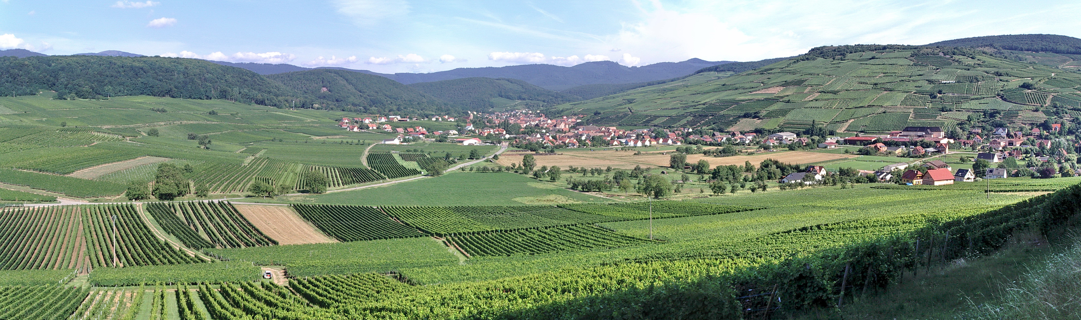 Soultzmatt & Zinnkoepfle, Alsace, France